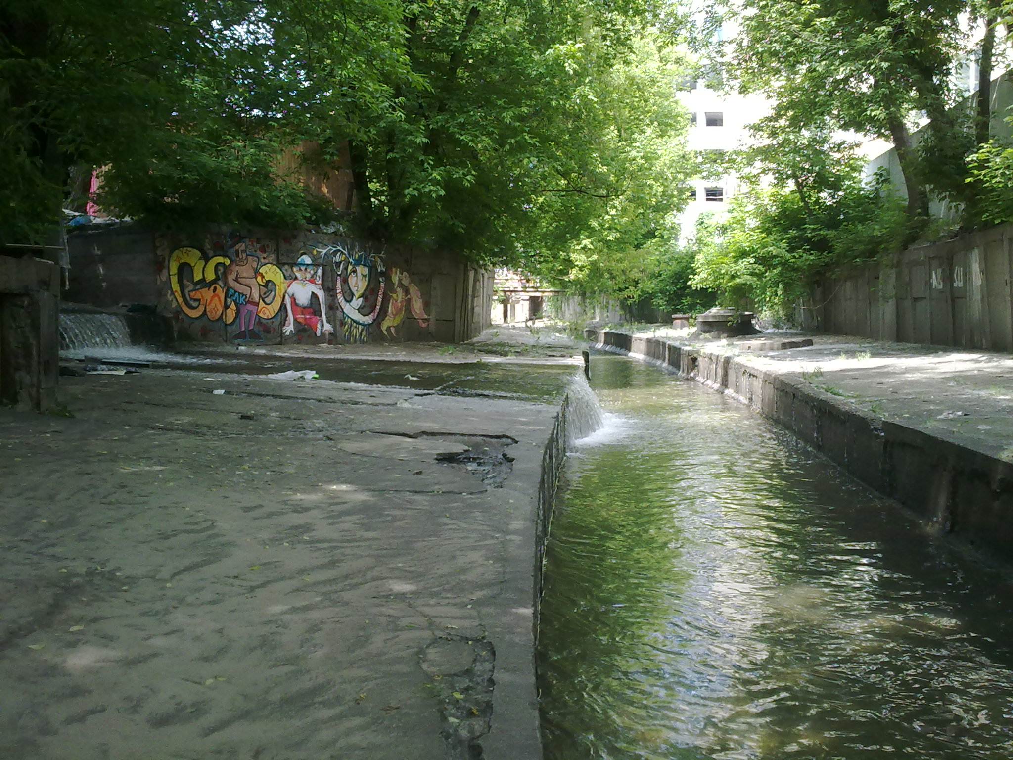 Mokra River (tributary of Lybid)